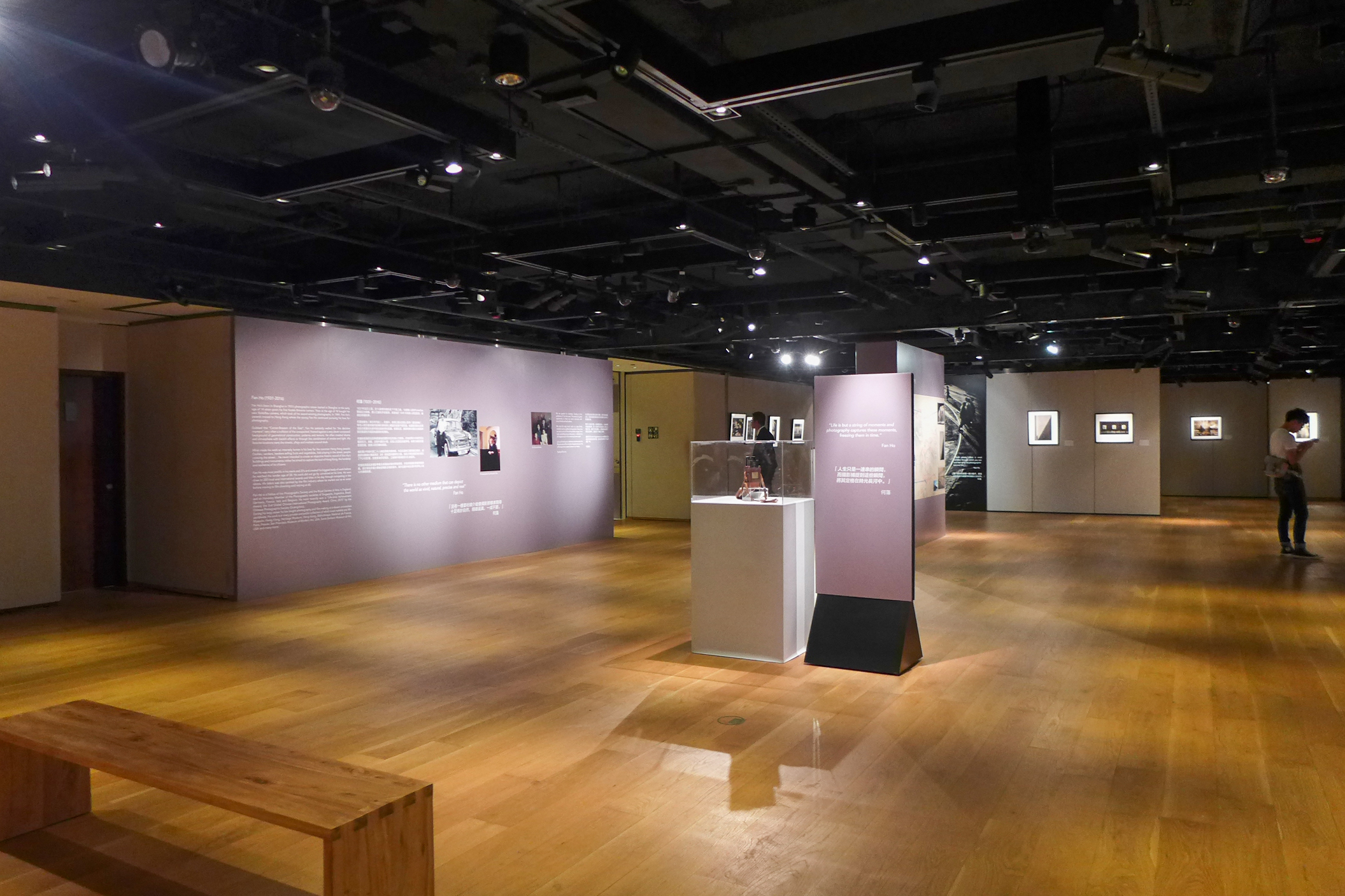 Sotheby's_Hong_Kong_Gallery Fan Ho Exhibition view